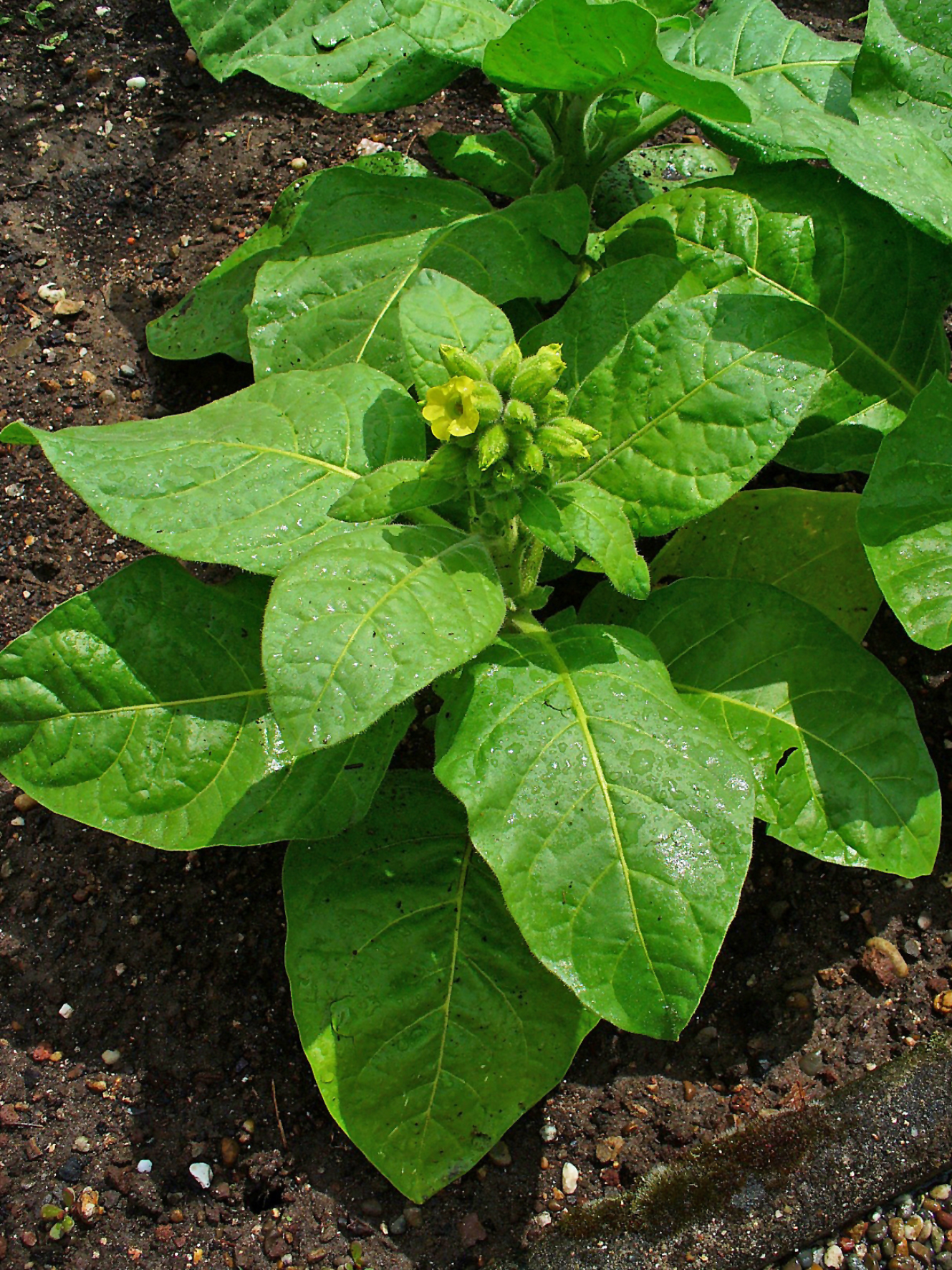 Nicotiana rustica, Solanaceae, Mapacho, habitus. Botanical Garden KIT, Karlsruhe, Germany.